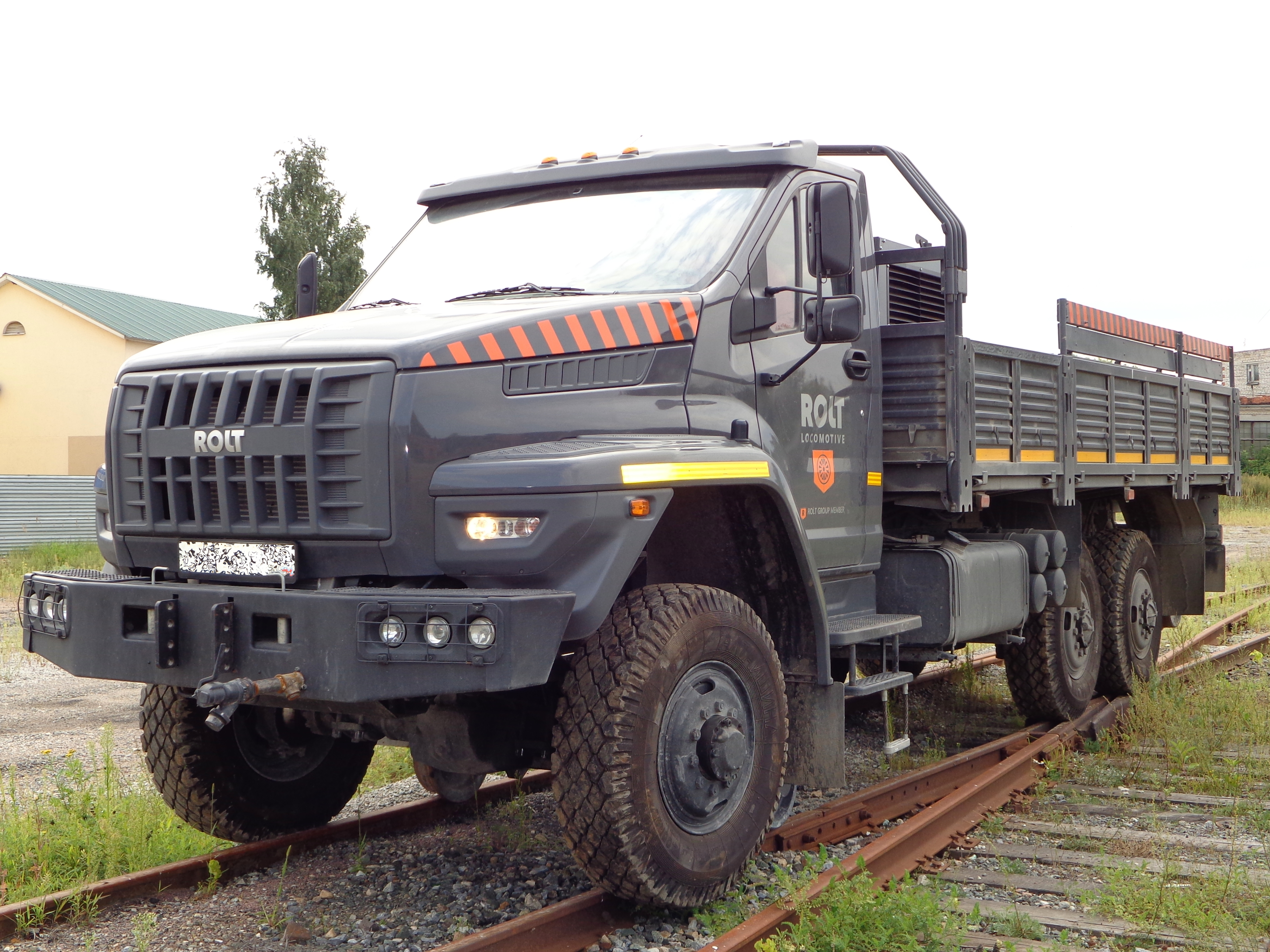 Road-rail truck in Kolomna.